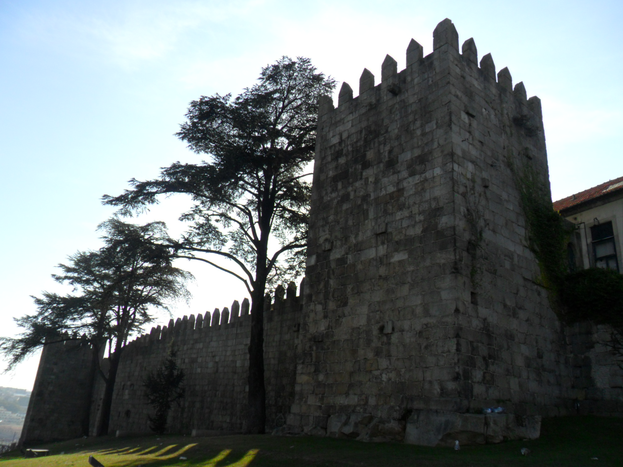 This file was uploaded for Wiki Loves Monuments in Portugal with the unique identifier 71120.